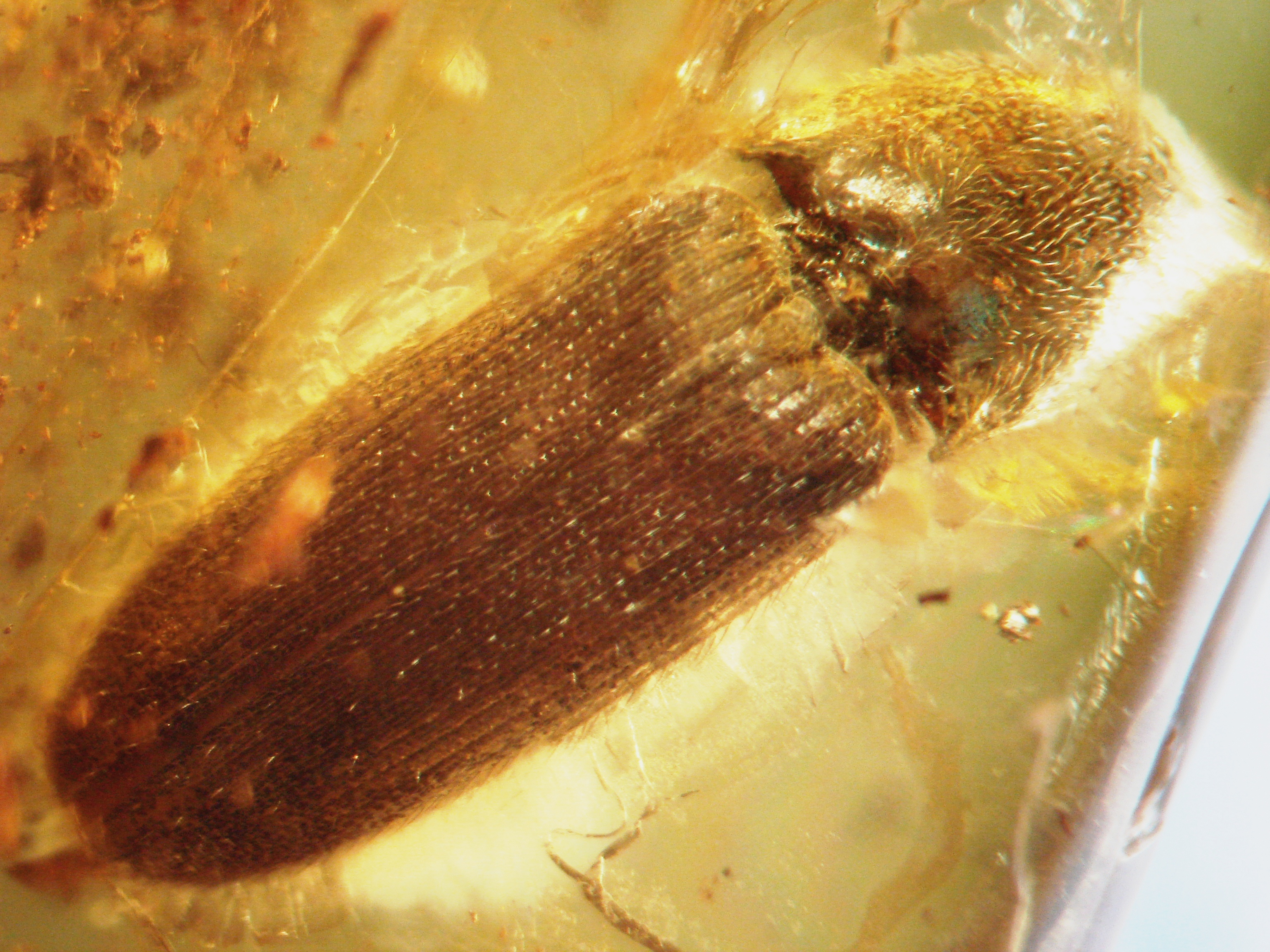 Baltic amber inclusions - 50 million years old - Coleoptera, Elateridae, ...? Picture "Baltic amber Coleoptera Elateridae" show the front of this beetle